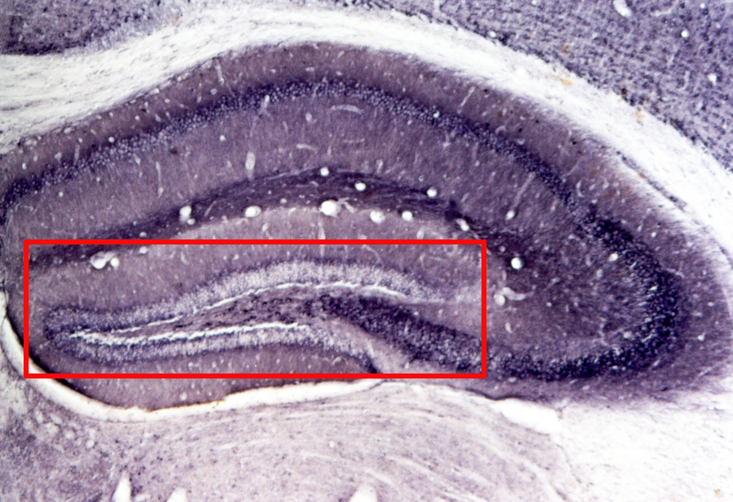 The dentate gyrus enframed within the hippocampus transverse section